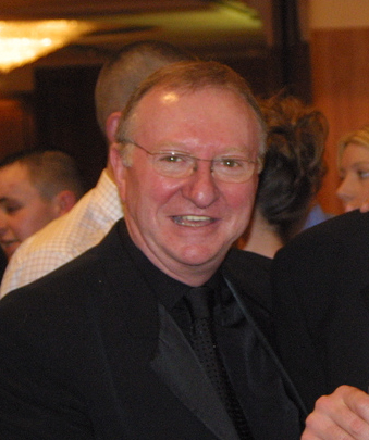 Dennis Taylor, retired Northern Irish snooker player. Taken in Belfast in 2004.